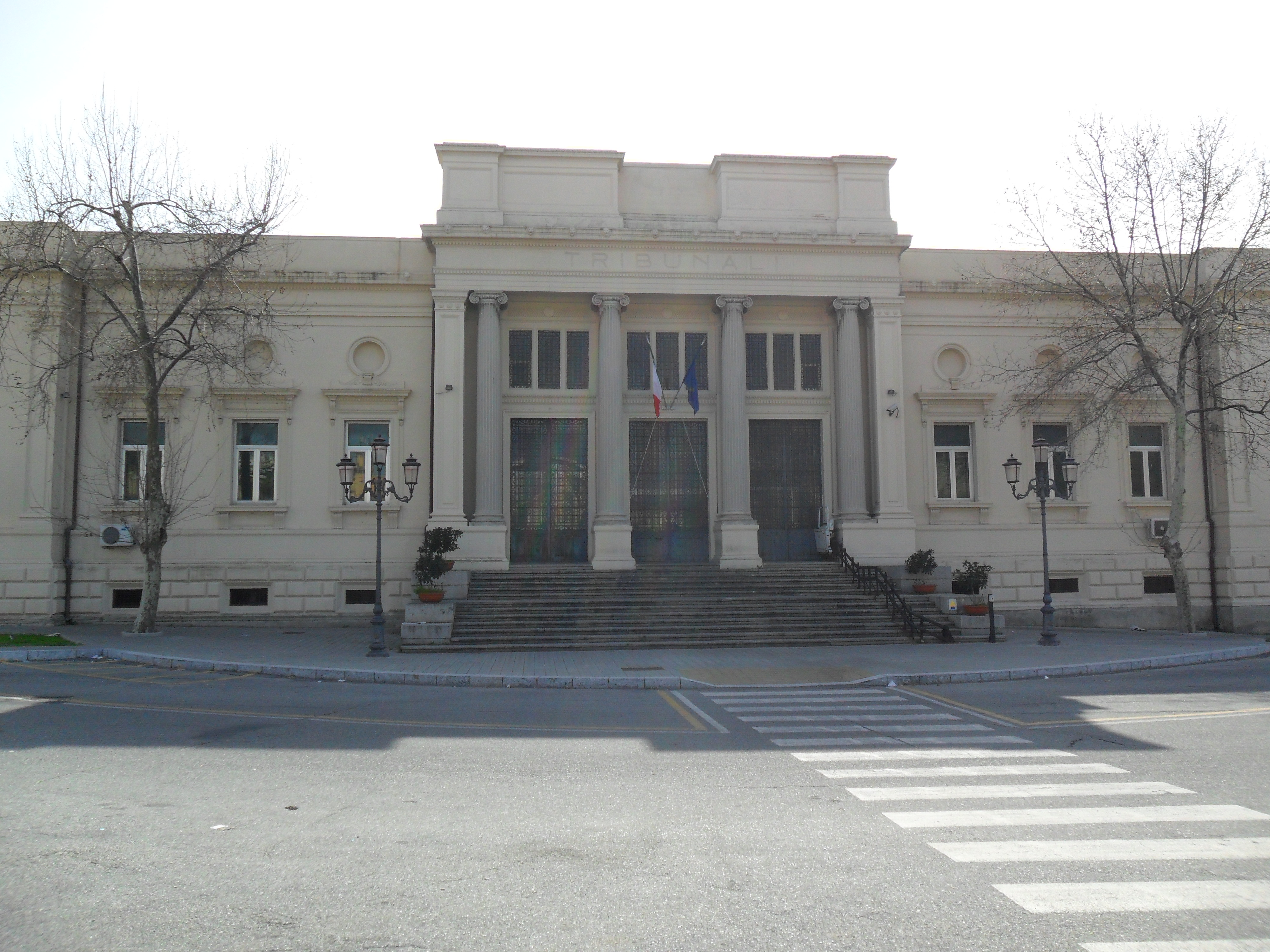 The Courts of Reggio Calabria